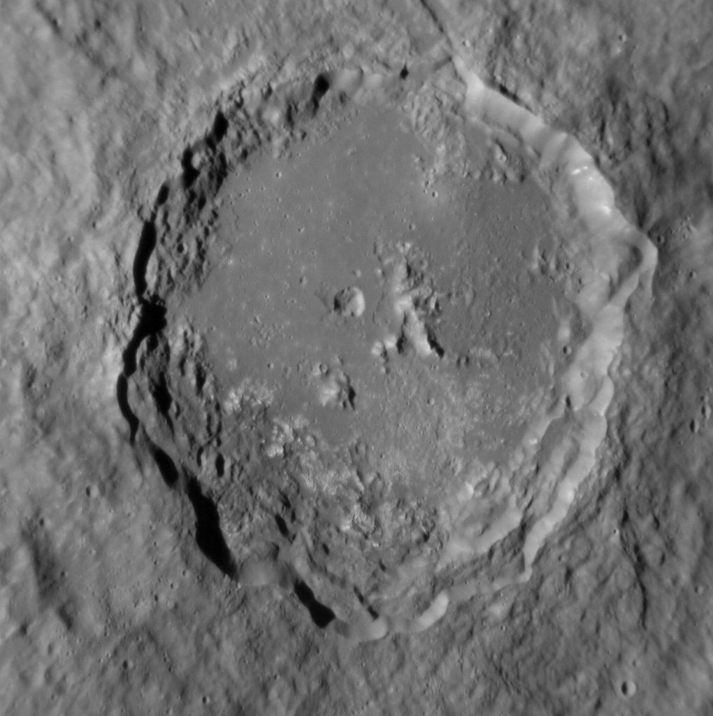 Slighly oblique view of Castiglione crater on Mercury, on the south side of the larger Rembrandt crater. MESSENGER Narrow Angle Camera. North is in upper left. Width is approximately 104 km. Emission Angle: 25.6 Incidence Angle: 68.3 Latitude: -40.9 Longitude: 87.8 Phase Angle: 42.6